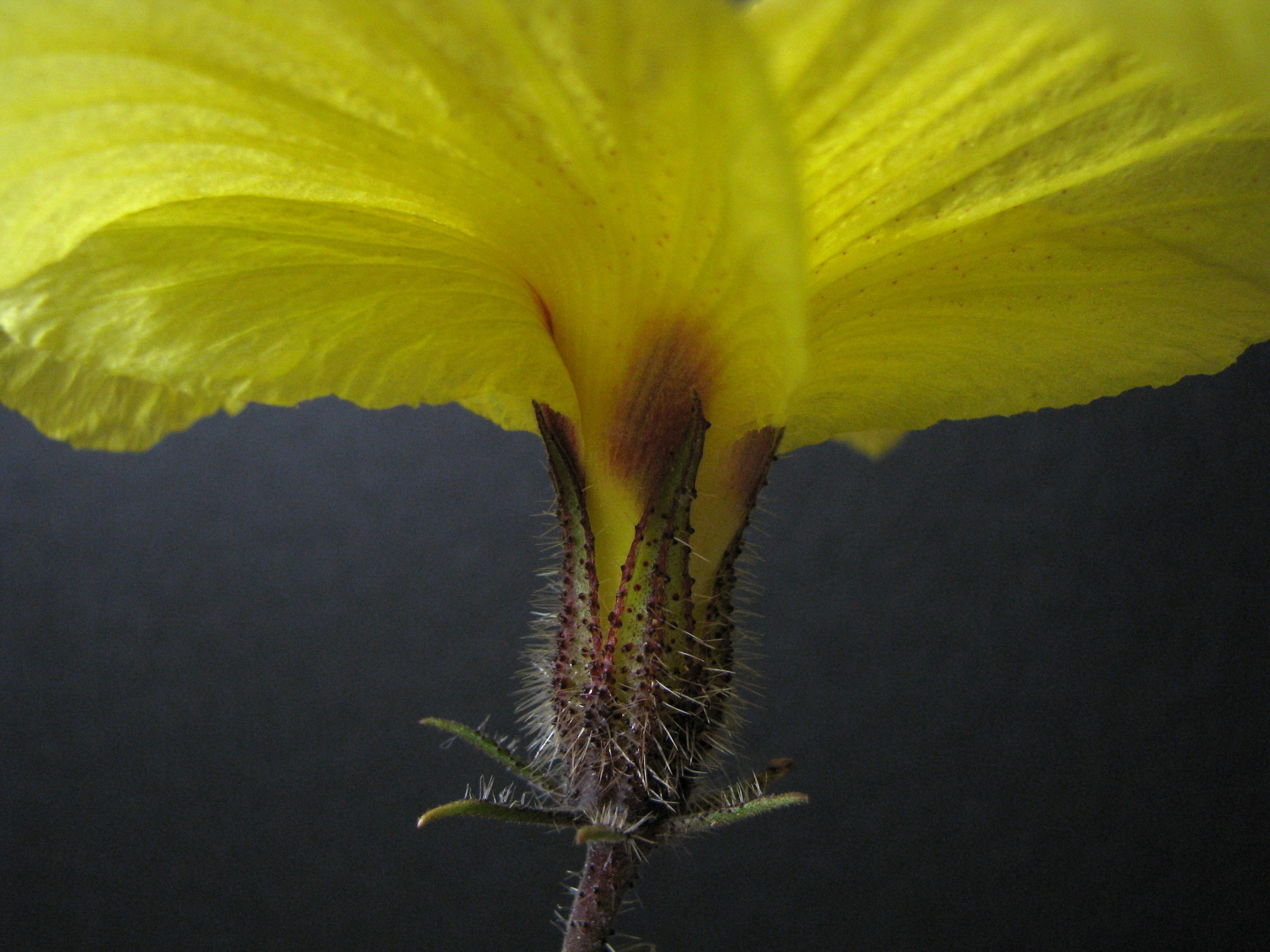 Maʻo hau hele Malvaceae Endemic to the Hawaiian Islands (Oʻahu only) Endangered Oʻahu (Cultivated) This subspecies grows to be a small tree. Hibiscus brackenridgei has been chosen to represent the official flower for the State of Hawaii. (See story at the website below) NPH00023